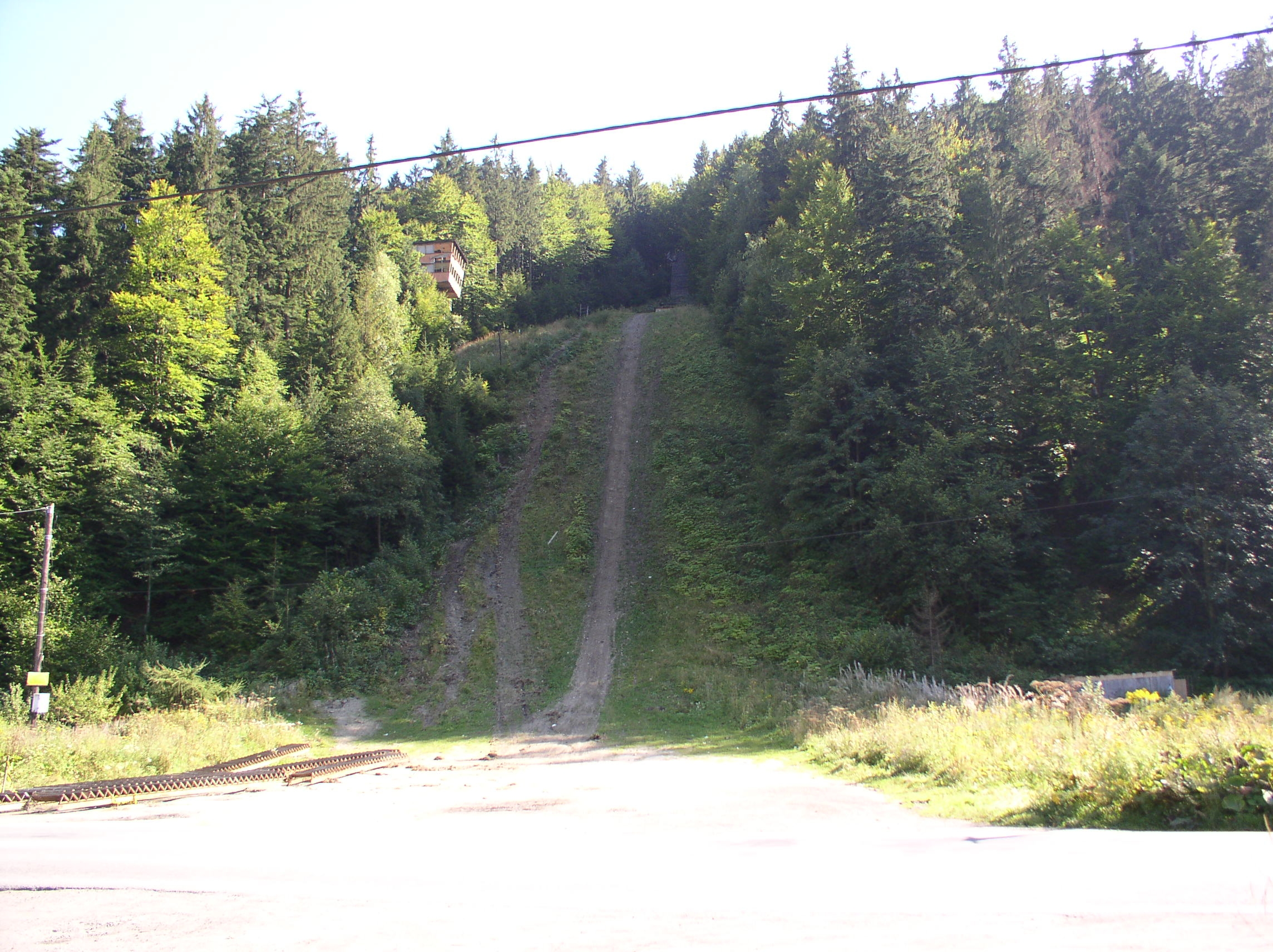 Malinka ski jumping hill before it was rebuilt and enlarged